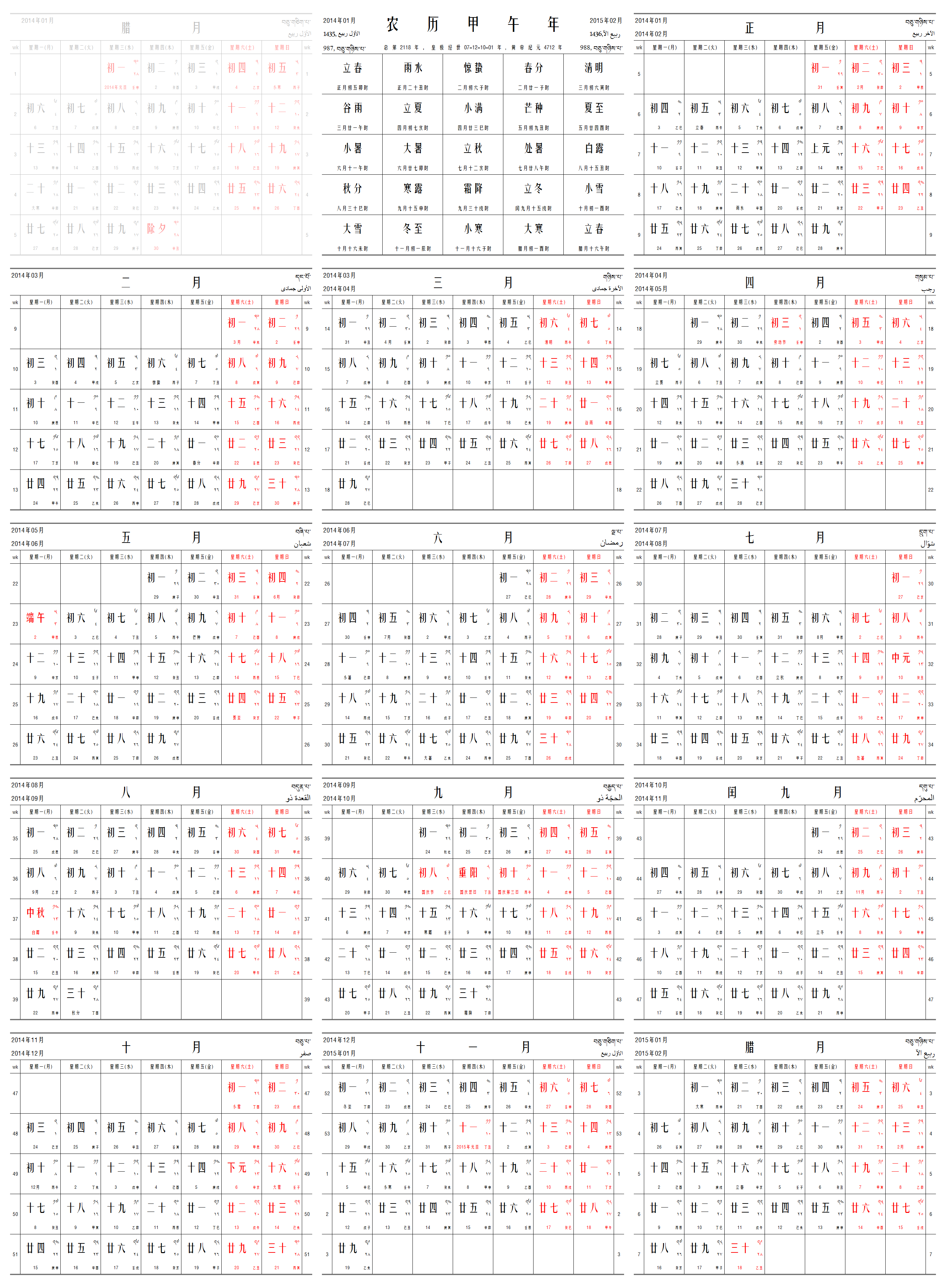 a single page of the Chinese calendar of Jiǎwǔnián, which contains the Tibetan and Muslim date